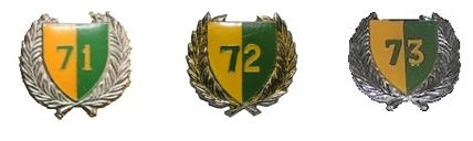 SADF 7 Division Brigade beret emblems